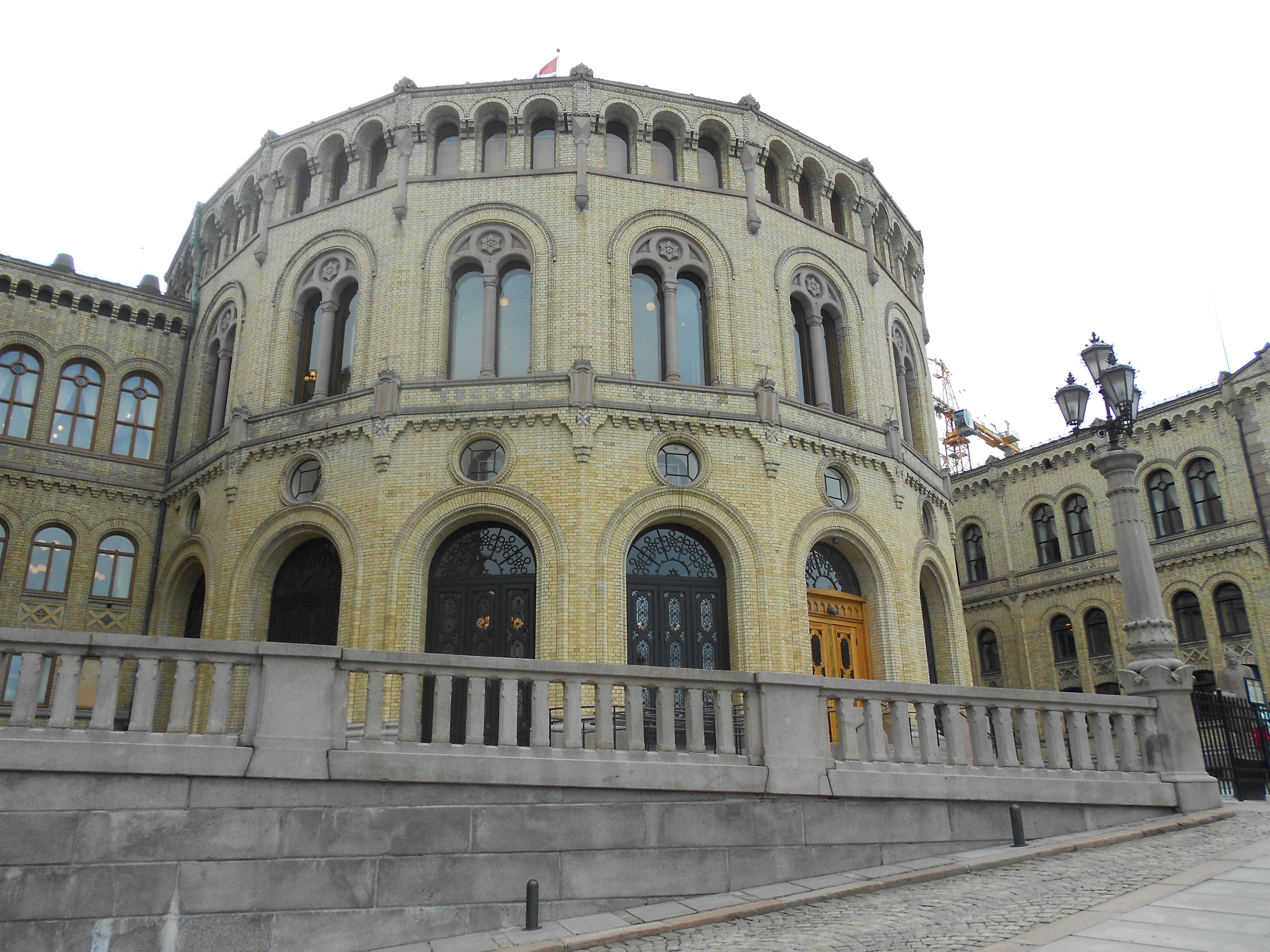 Stortingsbygningen, seat of Norway's parliament, in Oslo.